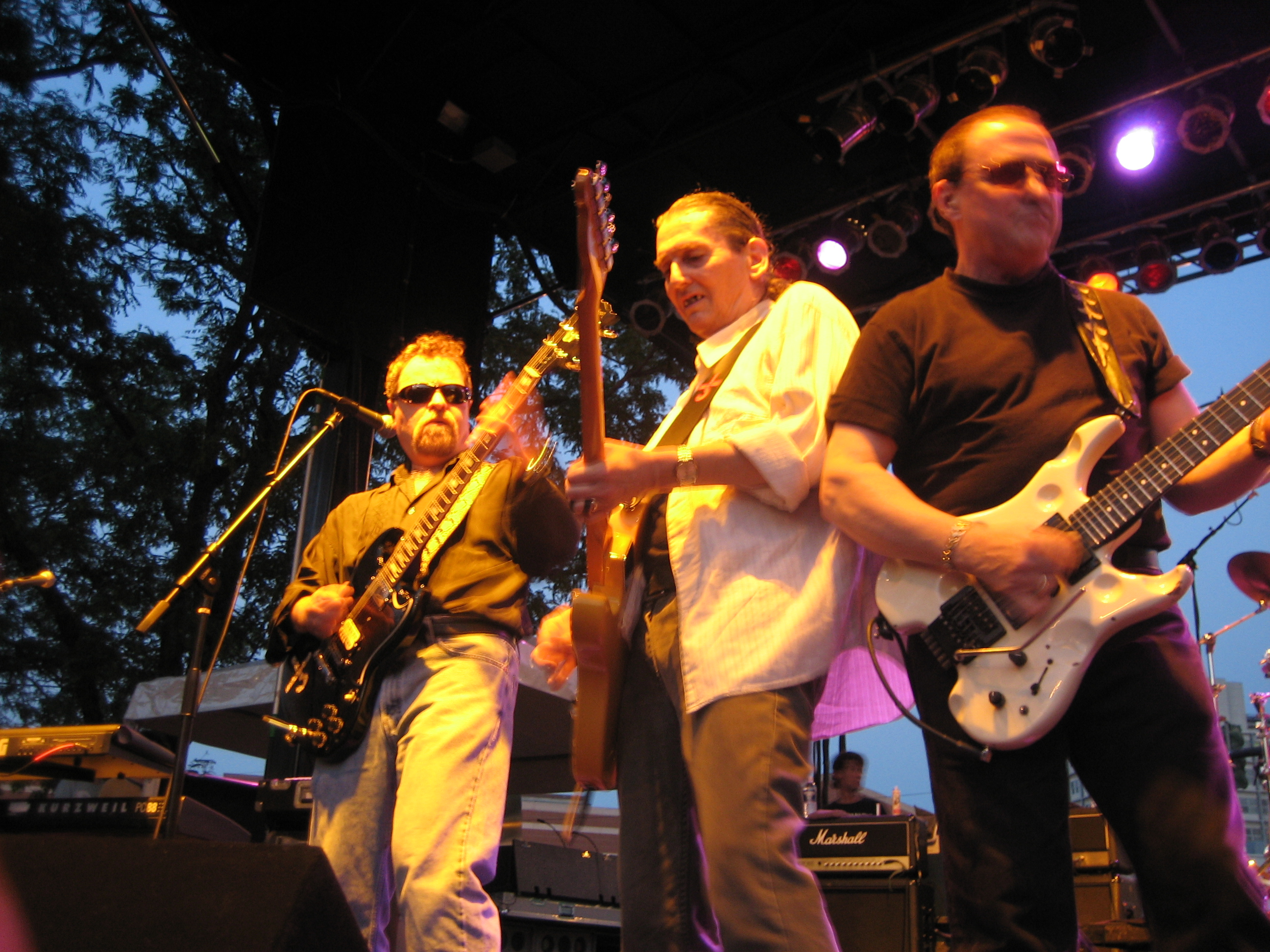 Allen Lanier, member of The Blue Öyster Cult. Allen in the middle, Eric Bloom on the left, and Buck Dharma on the right.